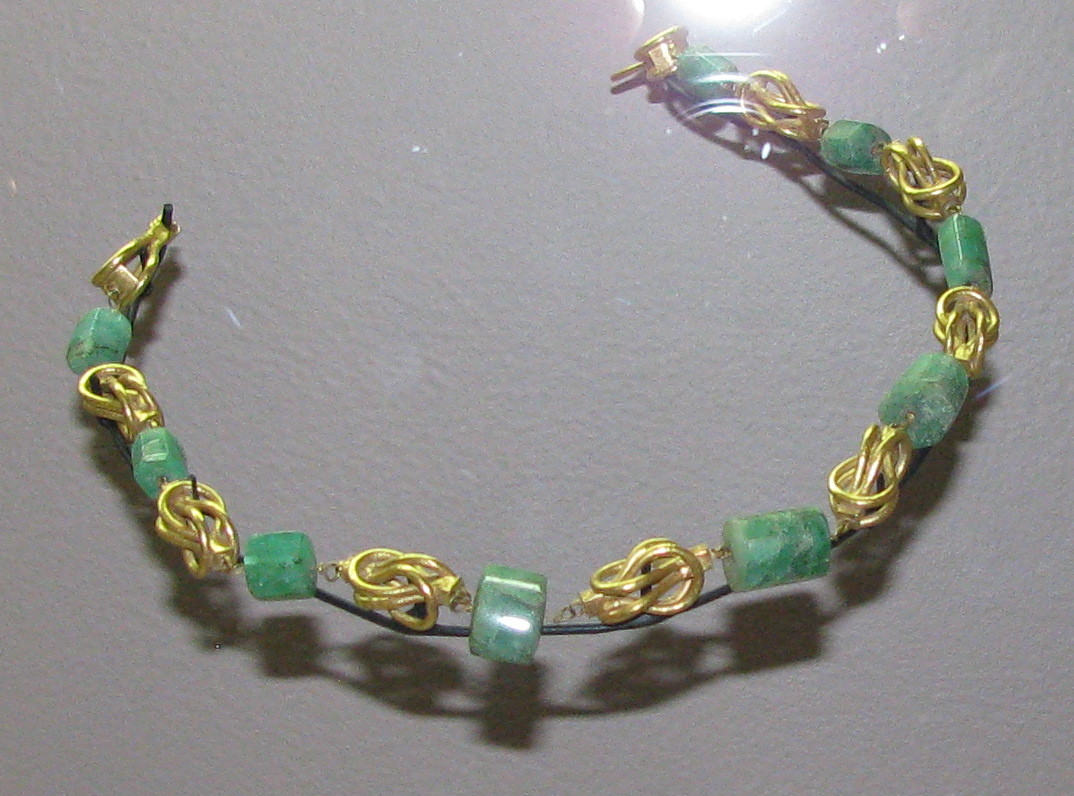 collar, part of treasure found in Vaise district of Lyon - Gallo-roman museum of Lyon - France